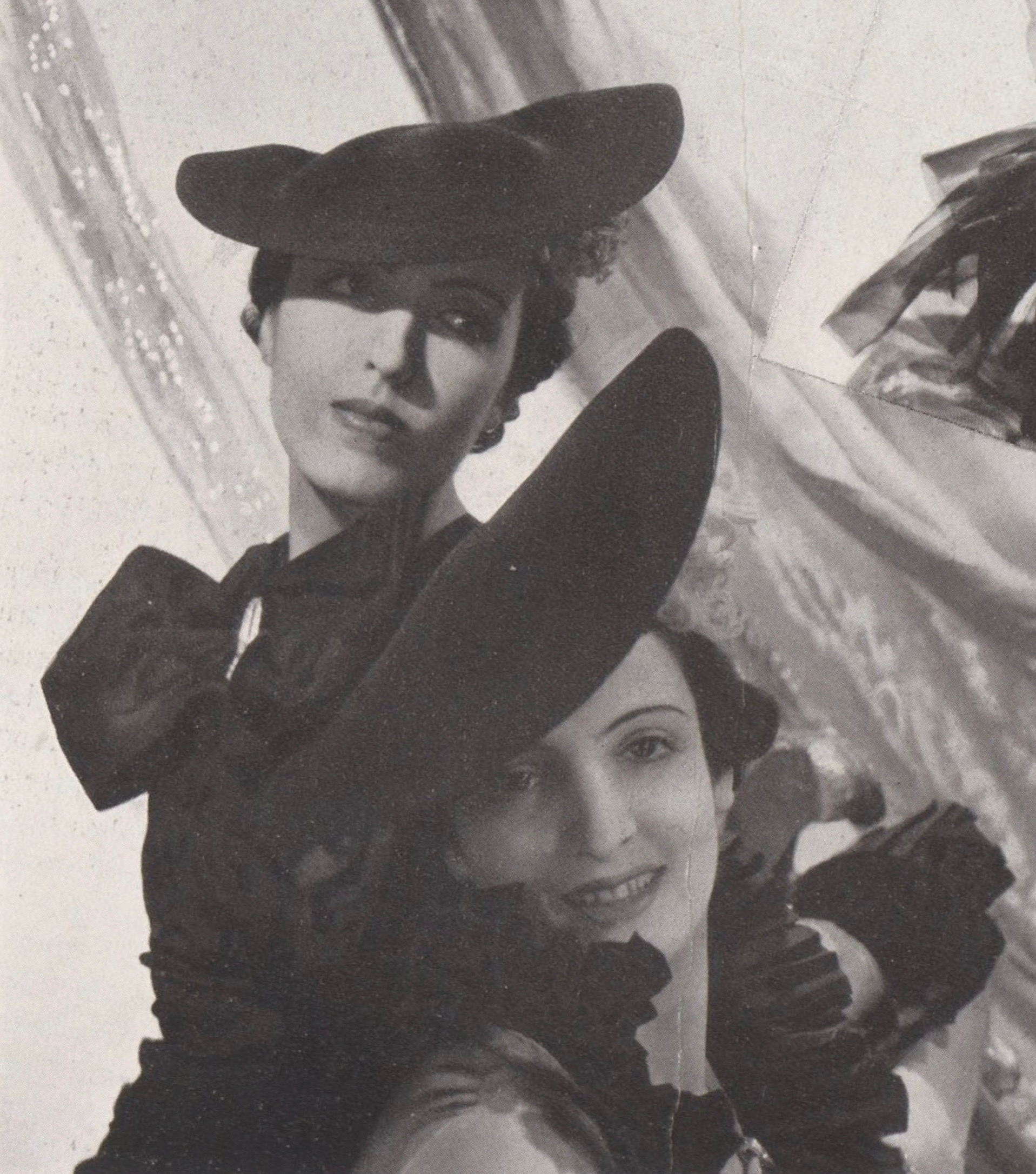 La comtesse Alain de Solages et la comtesse Guy de Gabriac, nées Goüin, dans le magazine Vogue